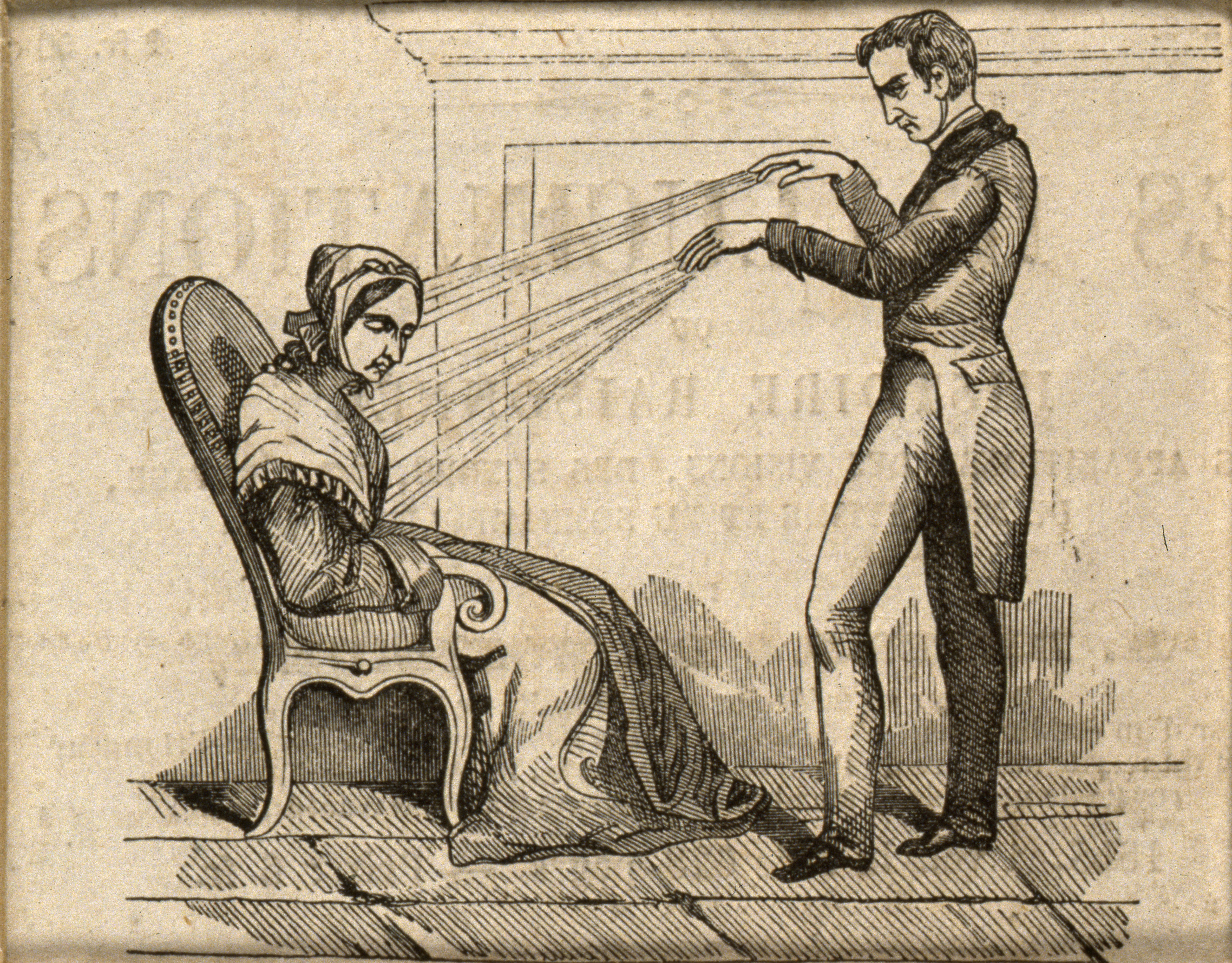 A practitioner of mesmerism using animal magnetism on a woman who responds with convulsions. Wood engraving. Mesmer, Franz Anton 1734-1815. Iconographic Collections Keywords: Patients; Animal Magnetism; Patient; Mesmerism; Alternative medicine